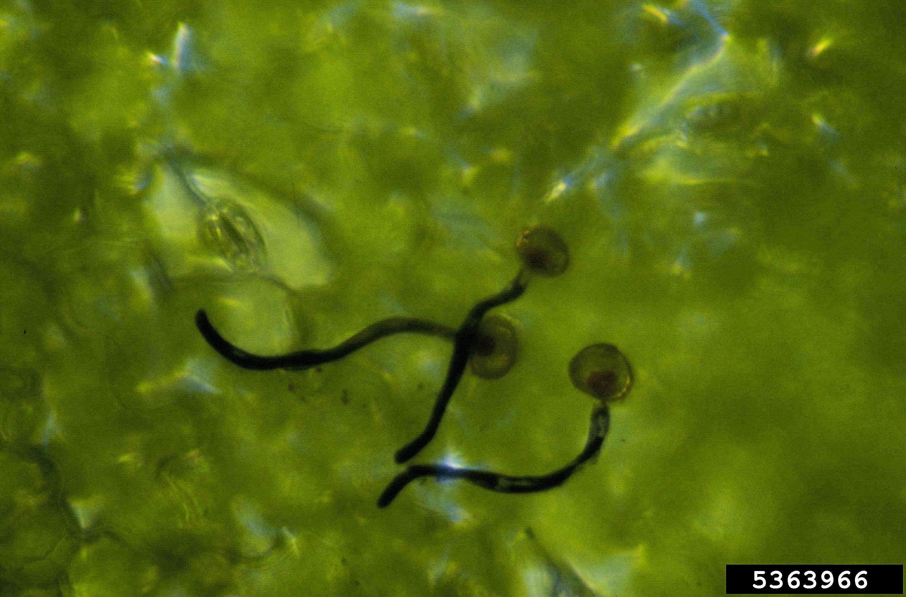 Uromyces appendiculatus, germ tubes